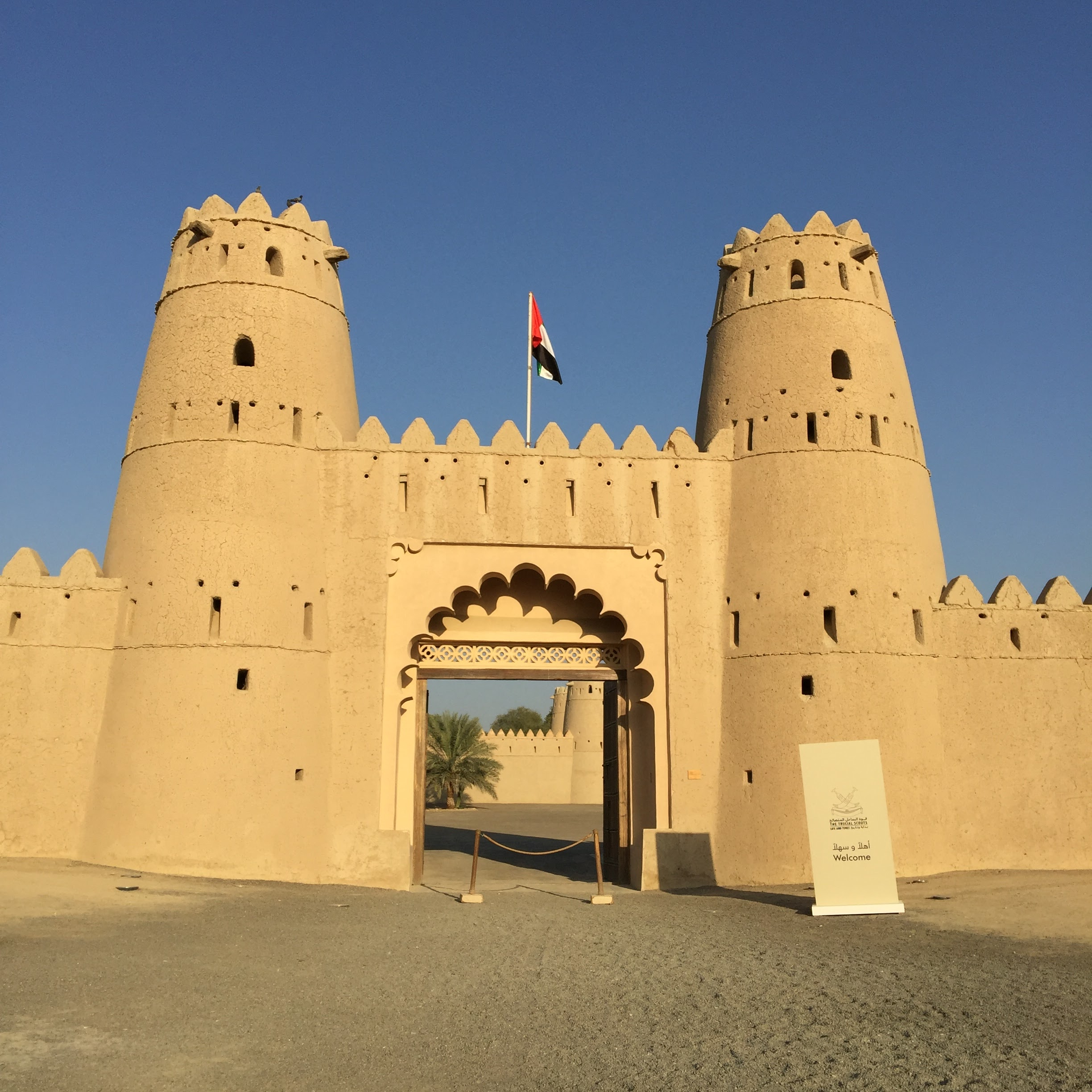 The majestic entrance gate to the iconic 19th century Al Jahili Fort in Al Ain